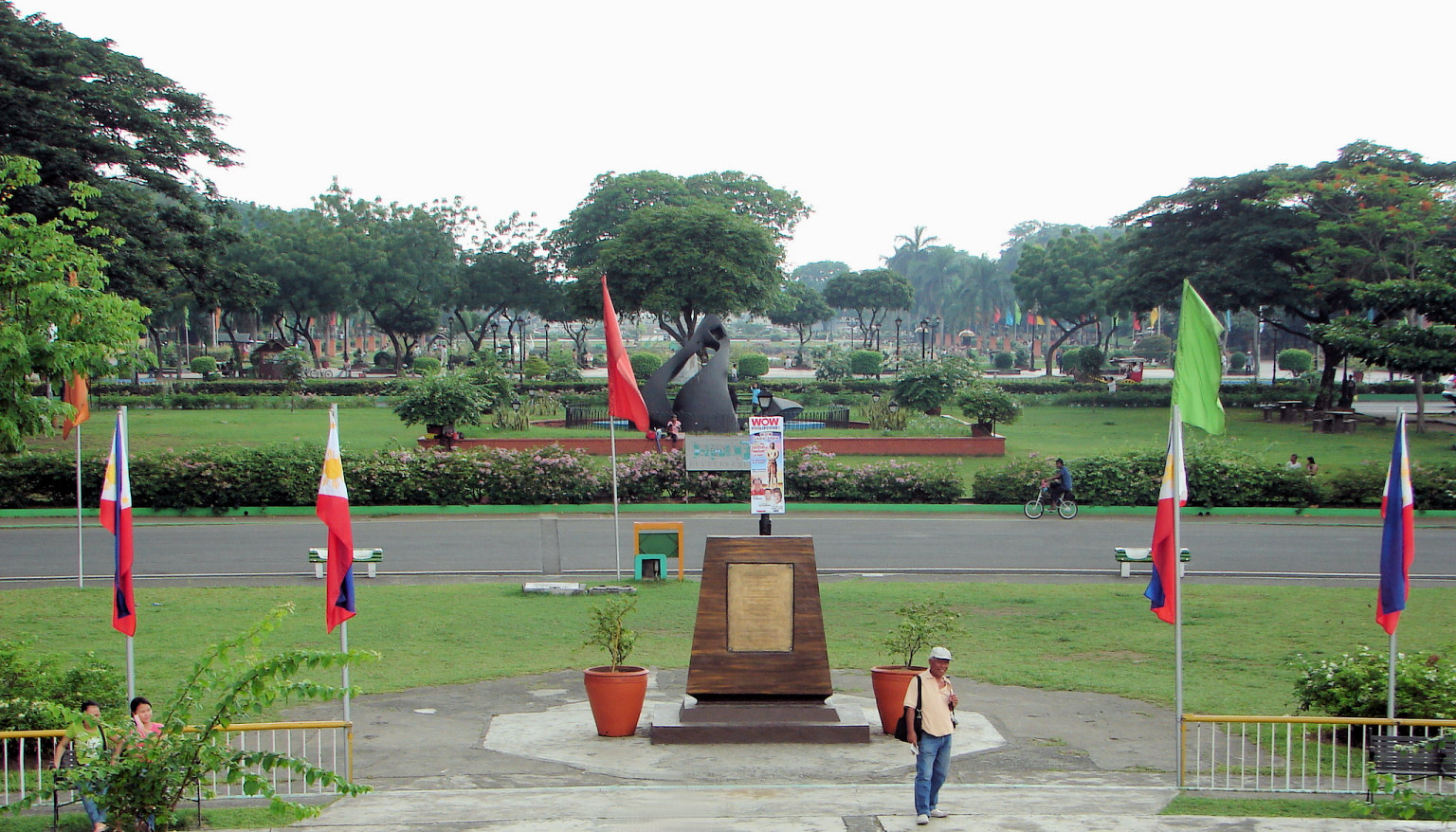 Overview of Rizal Park, Manila, the Philippines